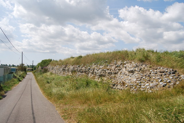 Roman Wall, Reculver Roman Fort This is all that remains of Regvlbivm. The fort once stood on a headland overlooking the Wantsum channel, separating Kent from the Isle of Thanet. the channel as long since silted up & filled in.